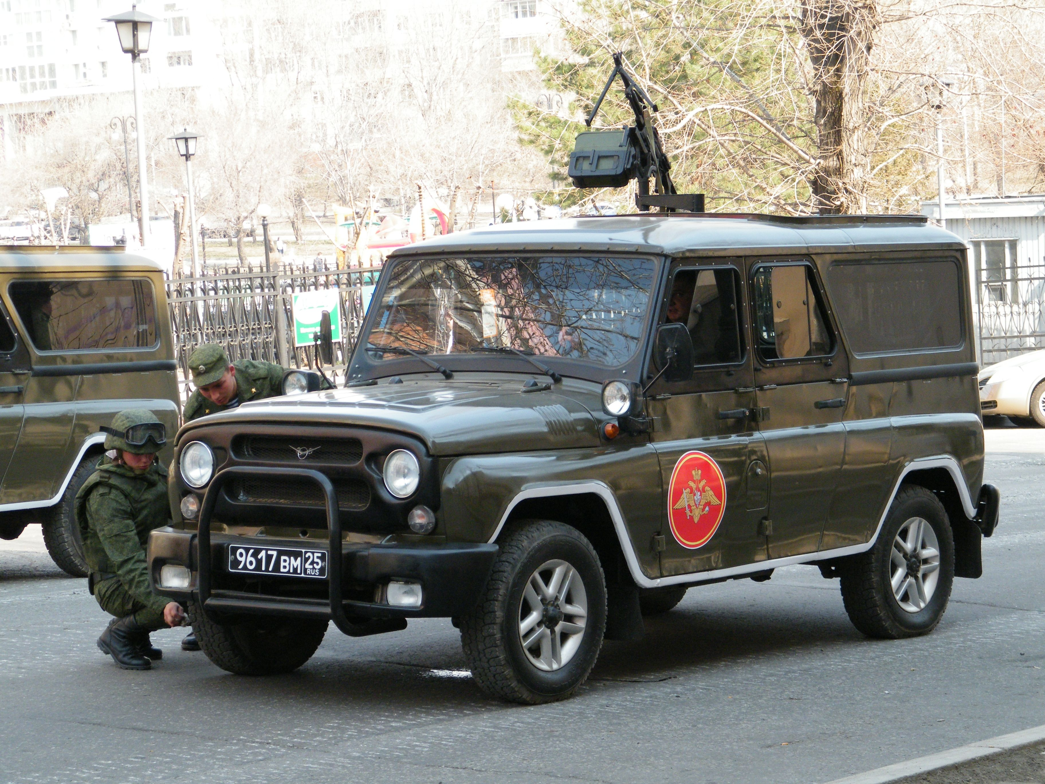 Far Eastern Military District